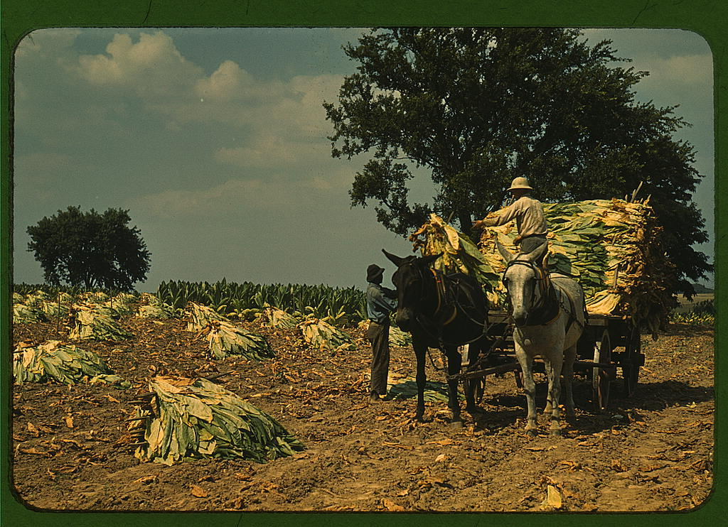 Wolcott, Marion Post,, 1910-, photographer. Taking Burley tobacco in from the fields, after it has been cut, to dry and cure in the barn, Russell Spears' farm, vicinity of Lexington, Ky. 1940 Sept. 1 slide : color. Notes: Title from FSA or OWI agency caption. Transfer from U.S. Office of War Information, 1944. Subjects: Tobacco plantations Carts & wagons United States--Kentucky--Lexington Format: Slides--Color Repository: Library of Congress, Prints and Photographs Division, Washington, D.C. 20540 USA, Part Of: Farm Security Administration - Office of War Information Collection 11671-11 (DLC) 93845501 General information about the FSA/OWI Color Photographs is available at Persistent URL: Call Number: LC-USF35-169